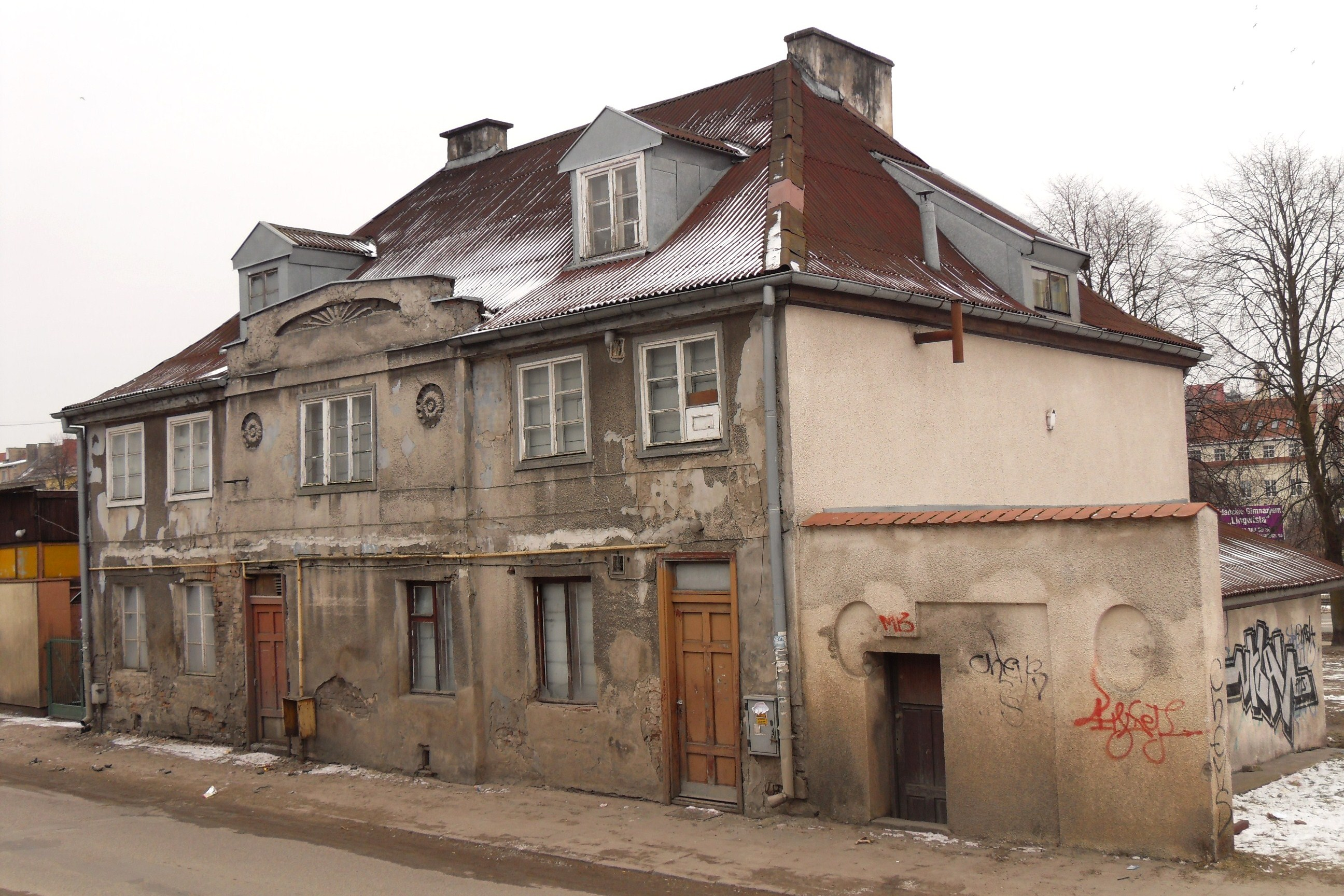 124a Kartuska Street in Gdańsk, 18th Century.